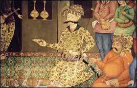 Photograph of painting of Shah Abbas I of Safavid from (no copyright can be involved, since it is a photograph of an ancient picture)